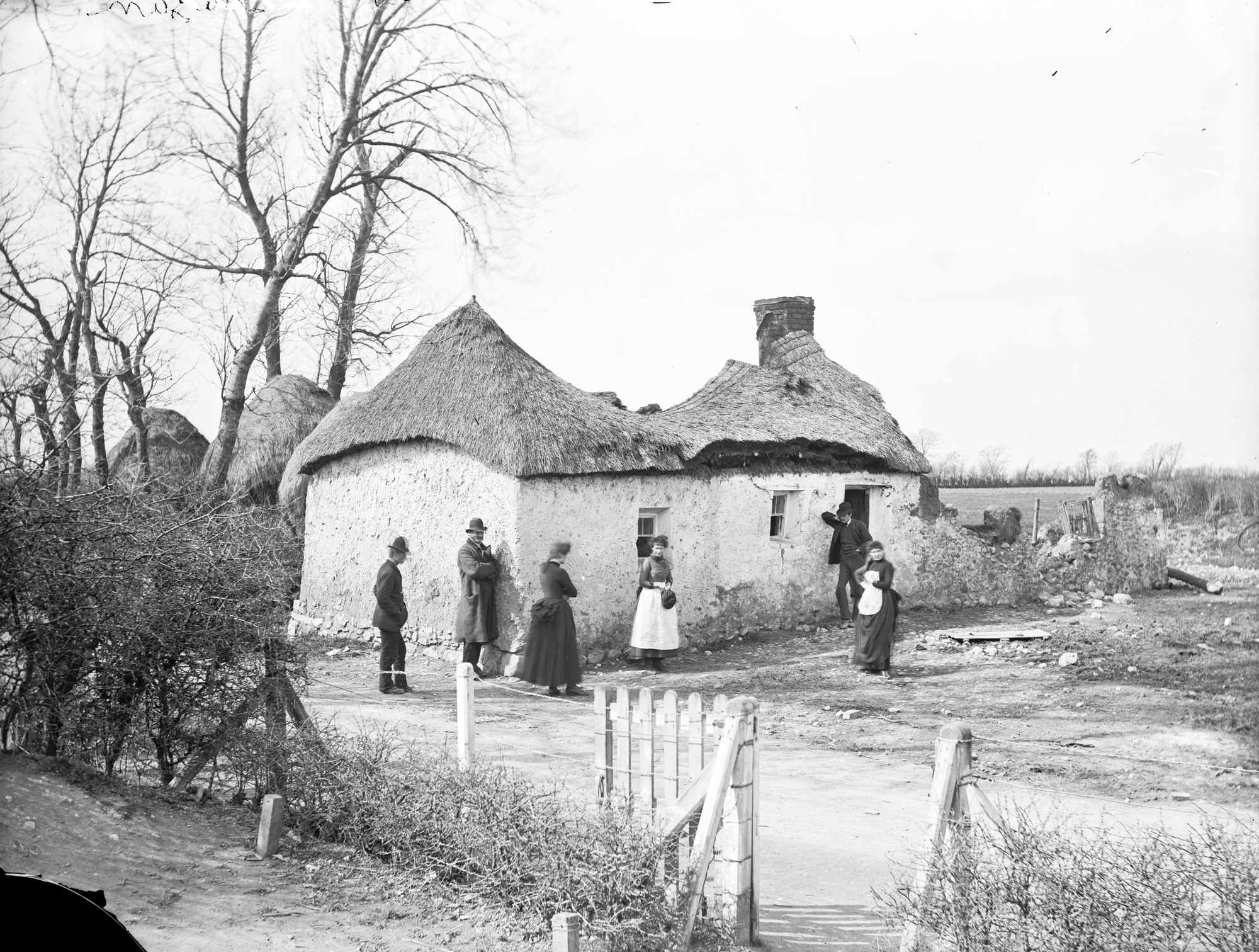 Certainly one of the more unusual titles for a photo in our catalogue. This is part of a series of eviction photos taken at Clongorey, Co. Kildare. Would love to know the date (though surely in the 1880s?), and where the corn came into it... This situation in Clongorey must have made the news, as houses were burned according to other photos in the series. Date: 1880s? NLI Ref.: L_ROY_02161